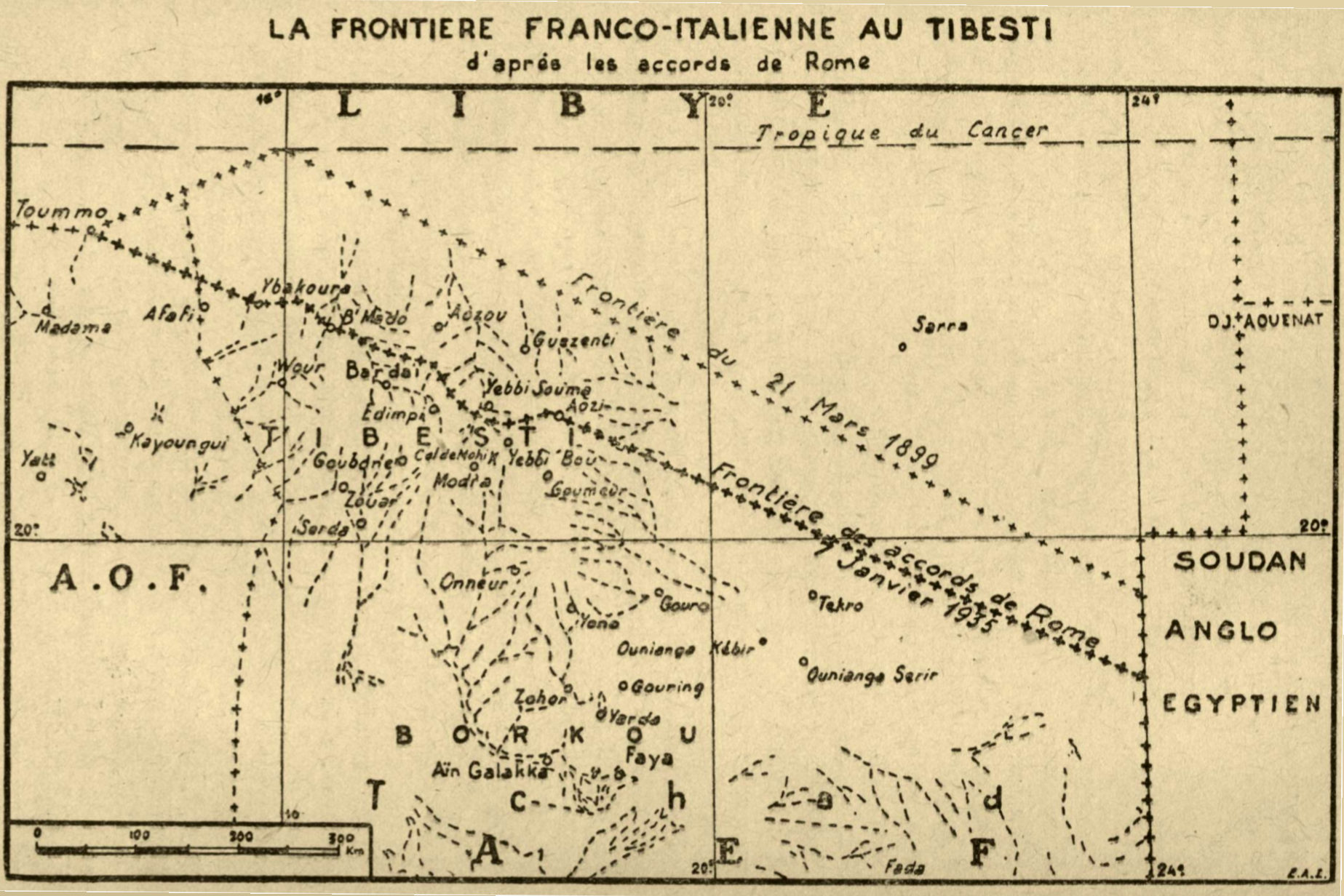 Map from 1935 showing the new border between the colonies of Libya and Chad following the signing of the Franco-Italian accord of January 1935 (the Rome Accord). The area France ceded to Italy is commonly known as the Aouzou Strip (Fr: Bande d'Aouzou).